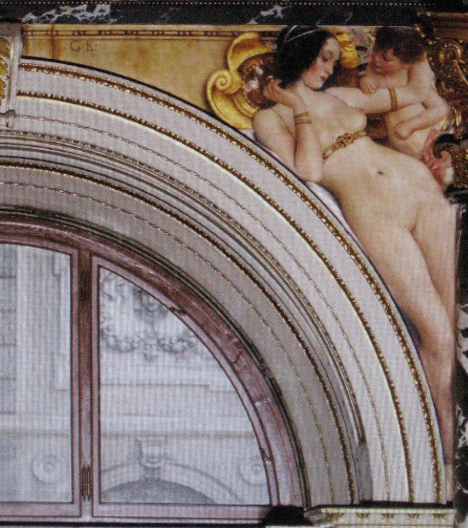 Gustav Klimt: Florence of the Quattrocento, Ceiling above the grand staircase, Kunsthistorisches Museum, Vienna